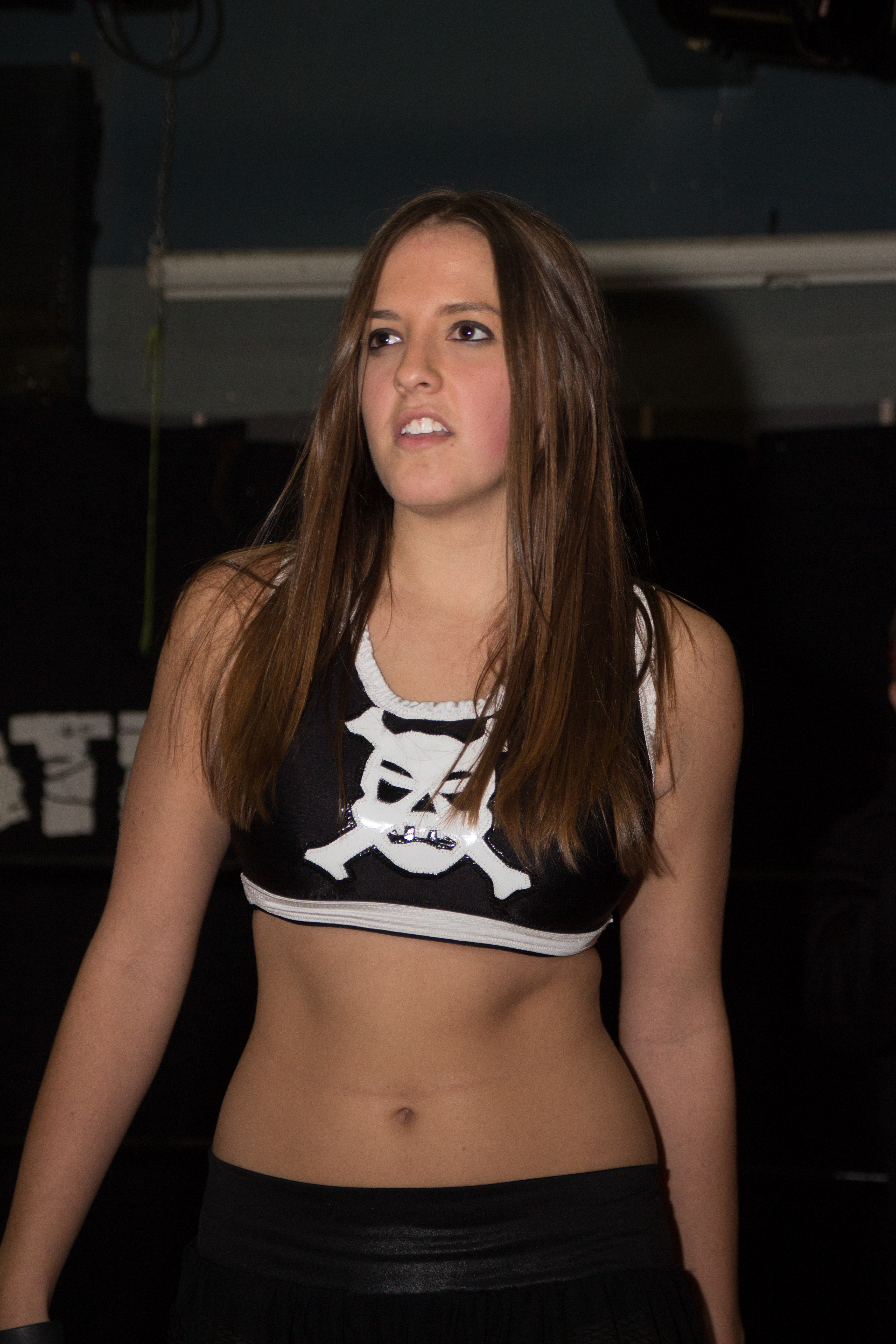 Crazy Mary Dobson making her way to the ring at a Deathprood independent wrestling show at the Rockpile West in Etobicoke, ON